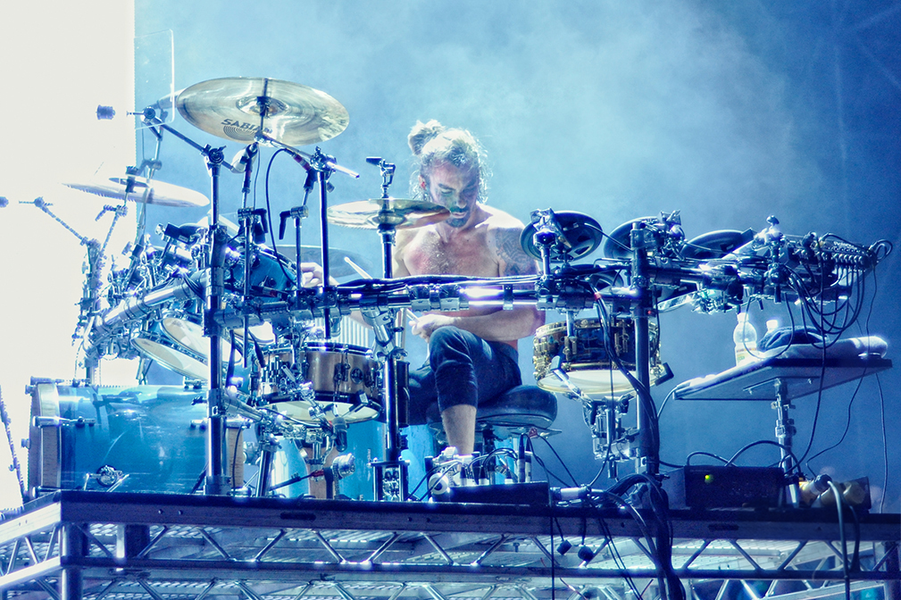 Thirty Seconds to Mars performing in Padova, Italy on July 14, 2013